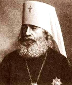 Митрополит Санкт-Петербургский и Ладожский Антоний (Вадковский) (1846-1912)